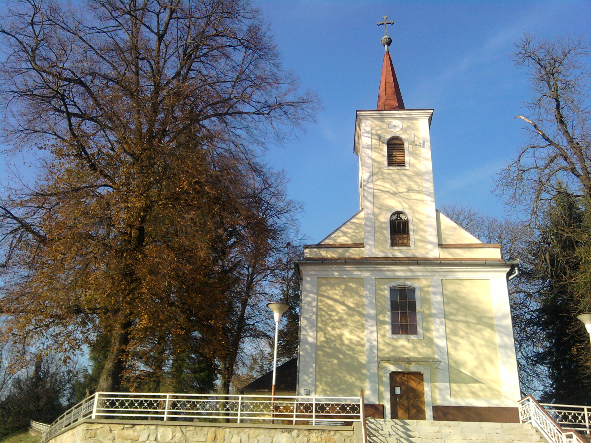 Domadice, cat. church, built in 18th century